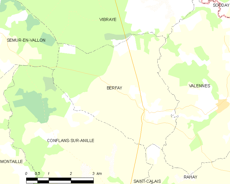 Map of French municipality